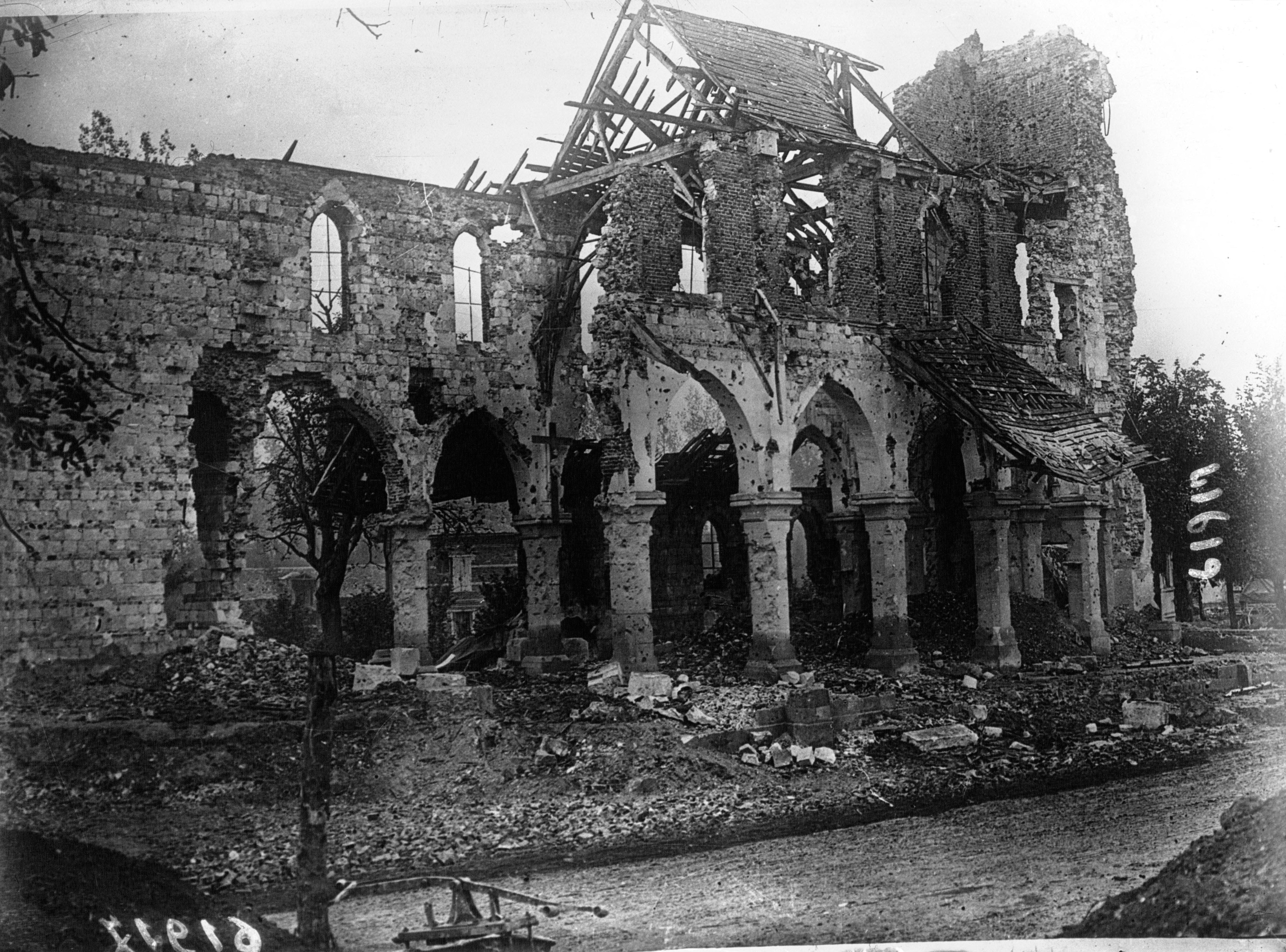 Church of Frise (Somme Département, France) during or after the Battle of the Somme (1916).